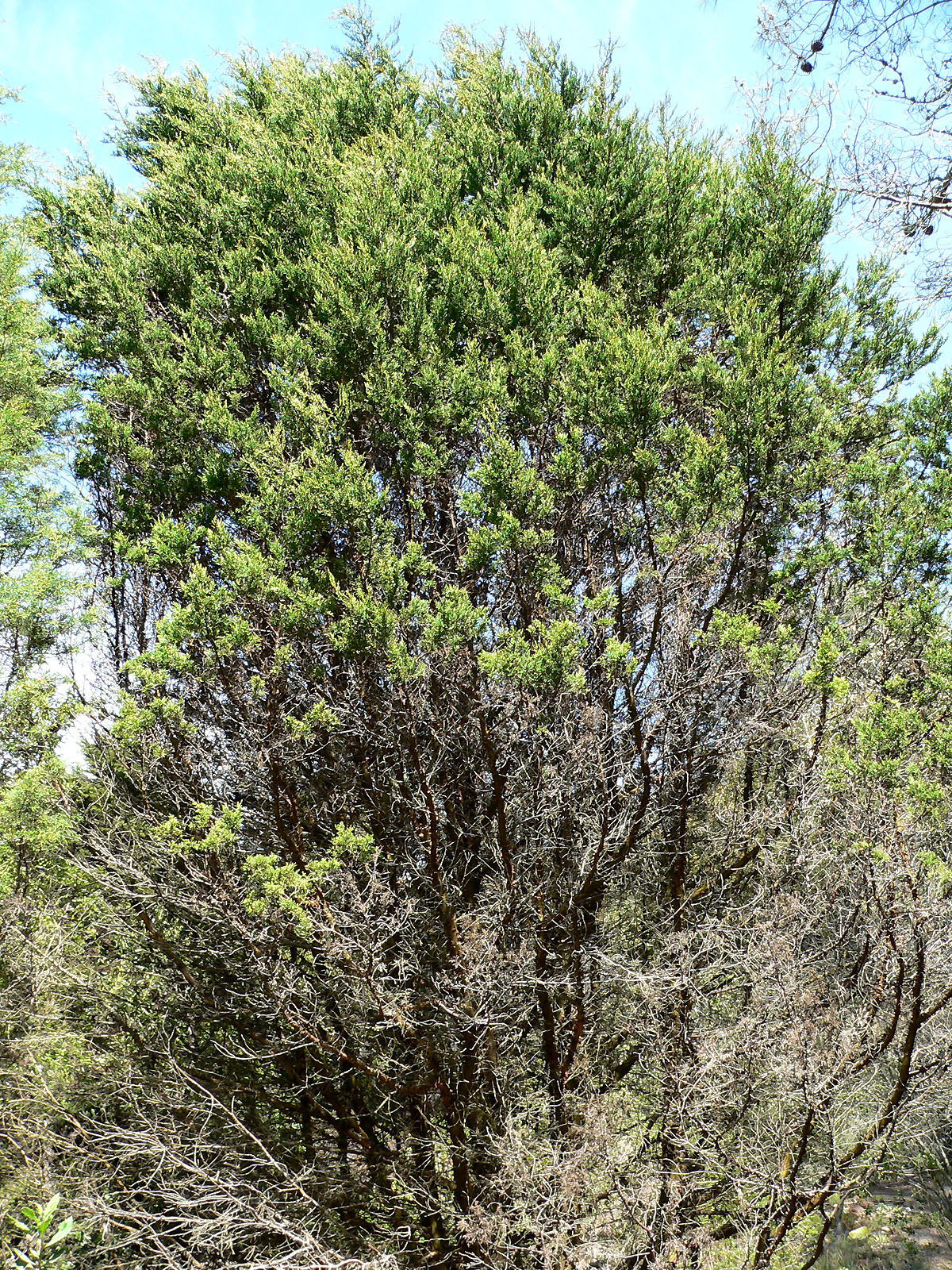 Cupressus forbesii (Tecate Cypress; syn. Hesperocyparis forbesii, Callitropsis forbesii). Endemic to the Peninsular Ranges of Southern California & Baja California, in California chaparral and woodlands habitats. Specimen in the Regional Parks Botanic Garden, Berkeley Hills, California.